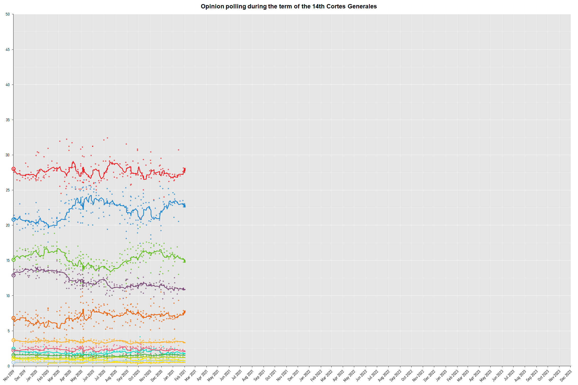 10-point average trend line of poll results from 10 November 2019 to the present day, with each line corresponding to a political party. PSOE PP Vox Unidas Podemos Cs ERC Más País JxCat PNV EH Bildu CUP CC